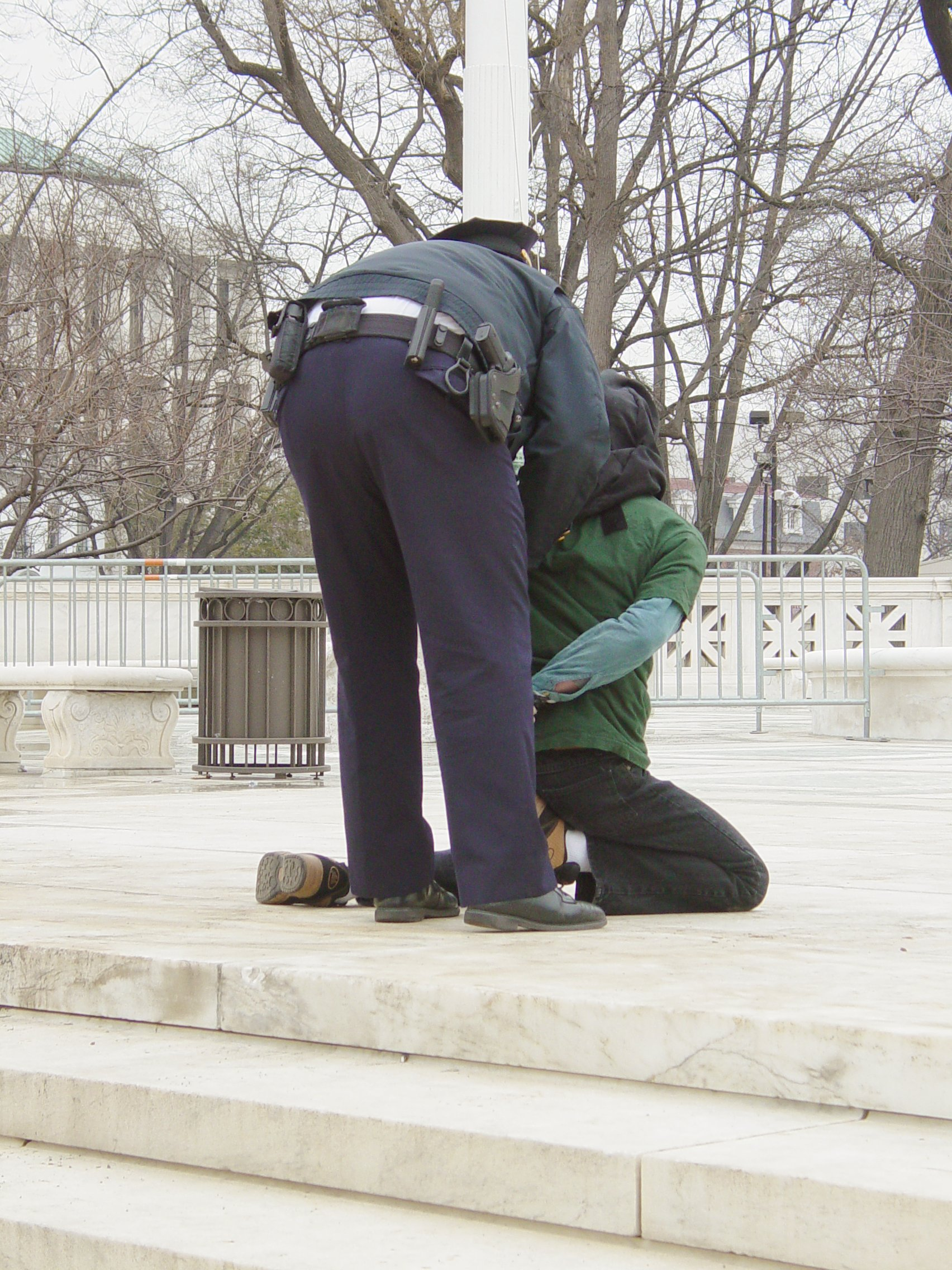 DC Anti-War Network activist Midge Potts is arrested on the steps of the Supreme Court of the United States in Washington, D.C. for an act of civil disobedience during an anti-torture demonstration.